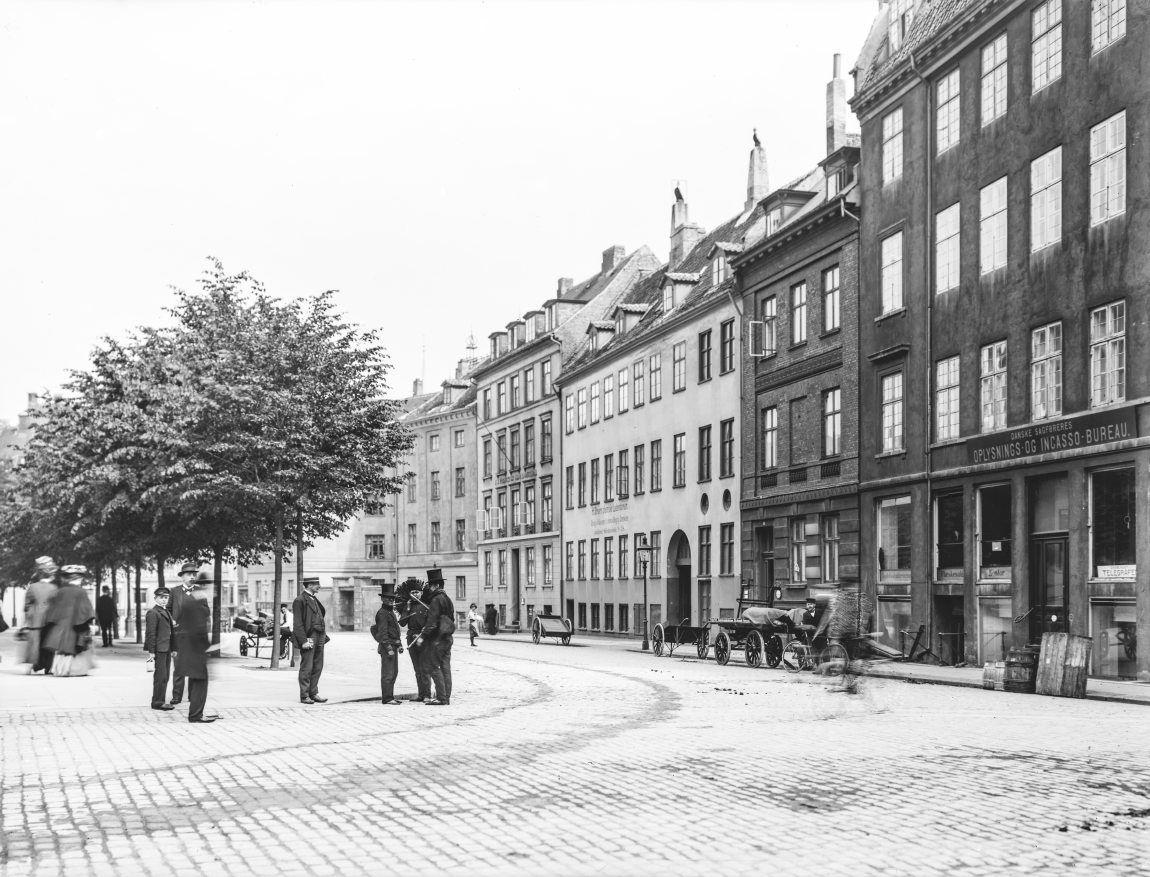 Dtrkøb in Copenhagen, Denmark